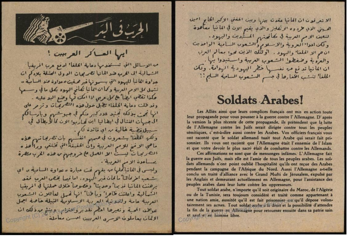 Rocket leaflet prepared by the Germans for Arabic speakers: "Soldats Arabes!" Leaflet with print on both sides with Arabic and French text: "The Allies and their French accomplices use their whole propaganda in the war against Germany. Their newest propaganda claims, that the fight of the Germans against the Jews, is directed against all Semitic peoples, including the Arabs. They told their French officers, that the Germans would kill every Arab that gets taken prisoner. They said that Germany is the enemy of Islam and it would be their holy duty to fight against the Germans. These claims are just infamous lies. Germany waged war against the Jews, but it is a friend of all Arab peoples. The German soldiers have not forgotten the Arab hospitality that they were met with during their North Africa campaign. Also Germany entered an alliance with the Grand Mufti of Jerusalem, to support them in their fight against their oppressors by extraditing all the British living in Germany. Every Arab soldier, no matter if they come from Morocco, Algeria or Tunisia, will be treated with consideration and as members of a friendly nation when they get captured or lay down their weapons voluntarily. Every Arab soldier has the right to the opportunity to witness the end of the war and return to their home safely and as free men." ca 5x3.75 inches, about postcard sized.